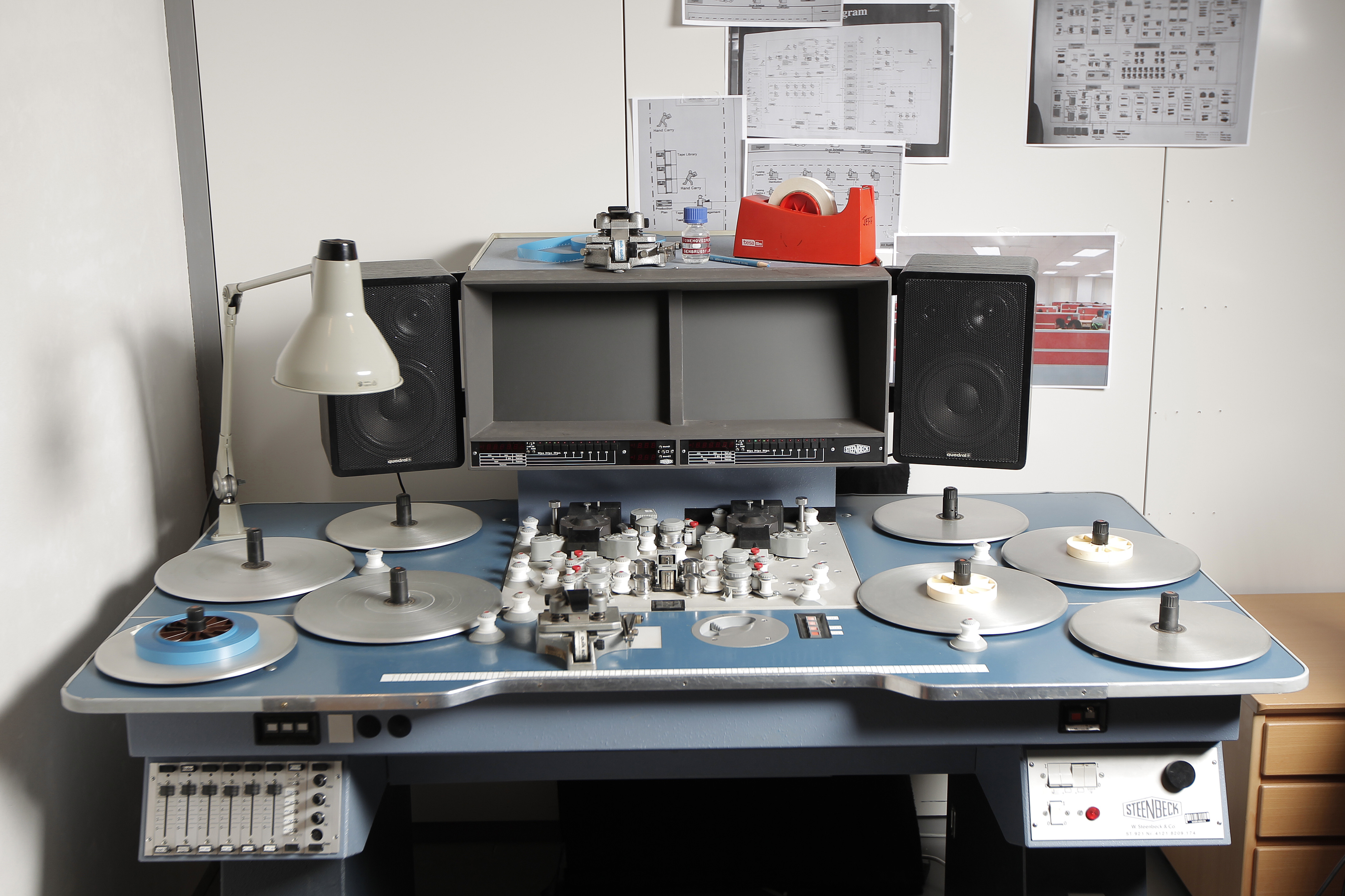 Danmarks Radios arkiv af DRs Kulturarvsprojekt / The archive of the Danish Broadcasting Corporation Photos must be credited "DRs Kulturarvsprojekt"